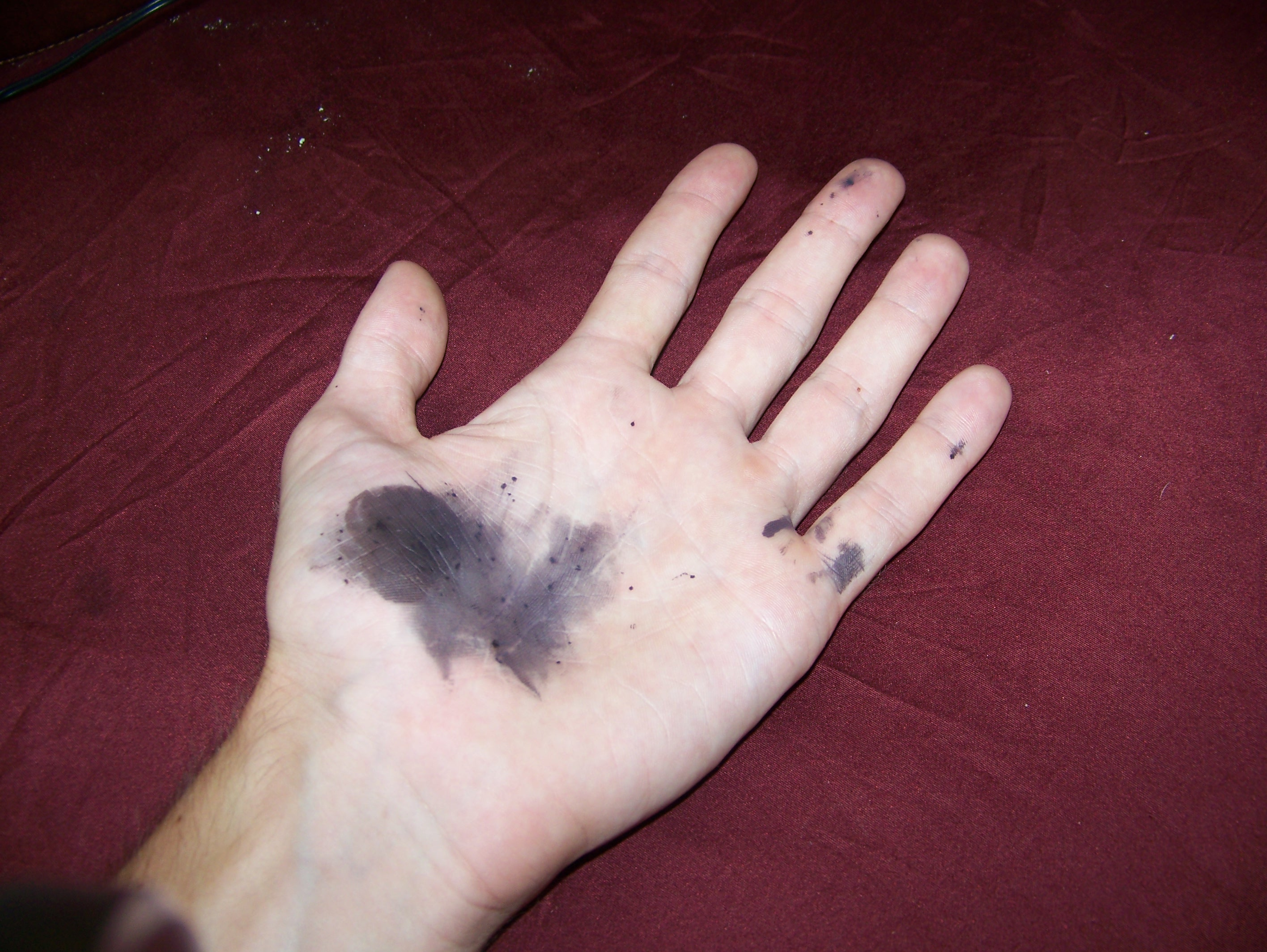 A hand stained black by silver nitrate, 17 hours after contact.